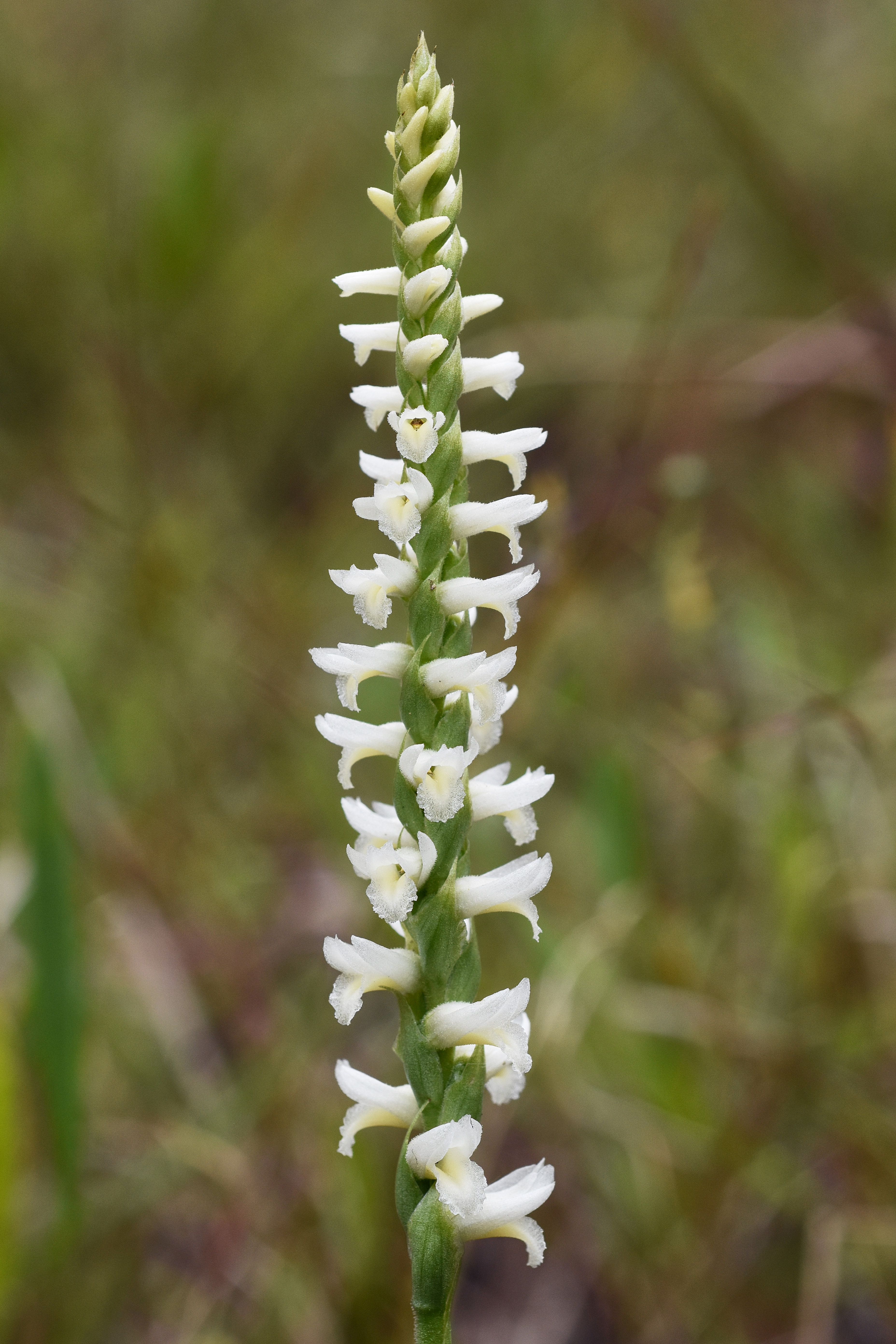 Species from central North America Common name: Great Plains ladies'-tresses Photographed at Terre Noir Natural Area, Clark County, Arkansas